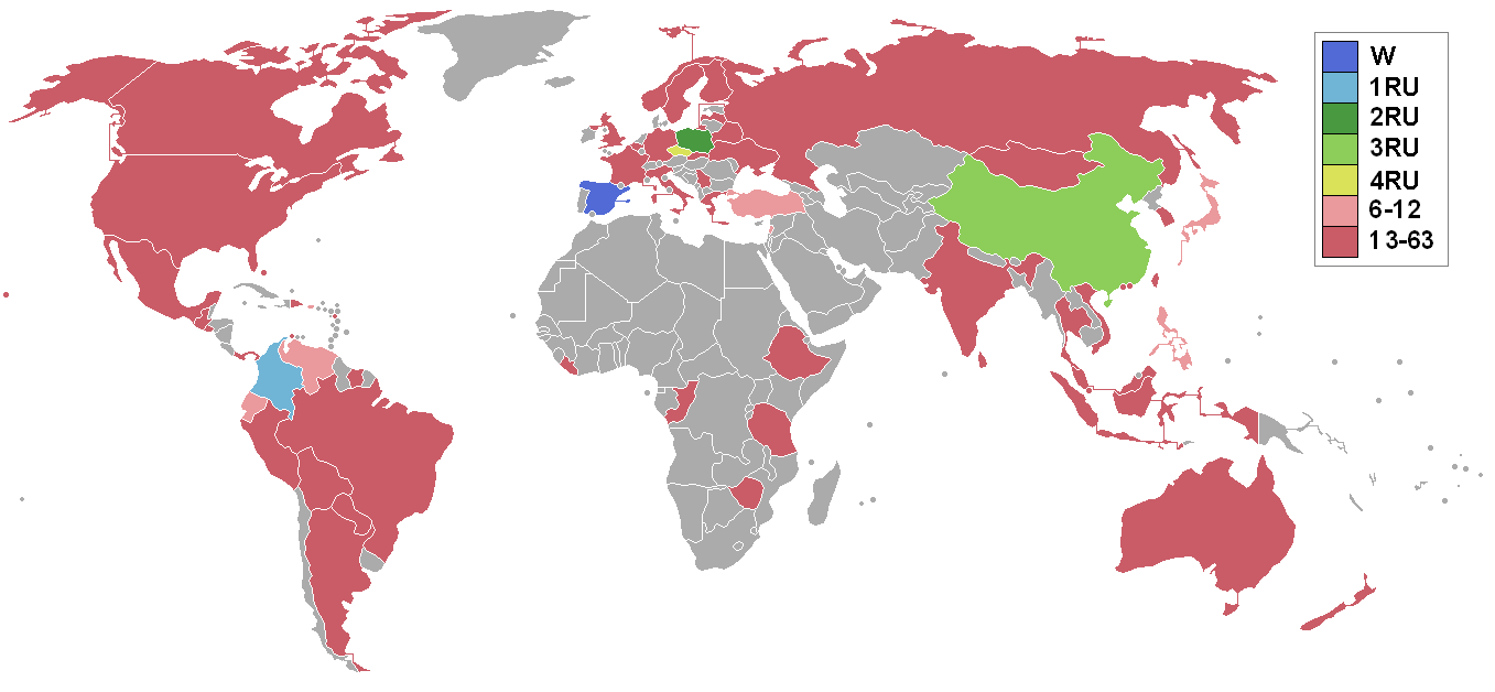 ms international 2008 participation map